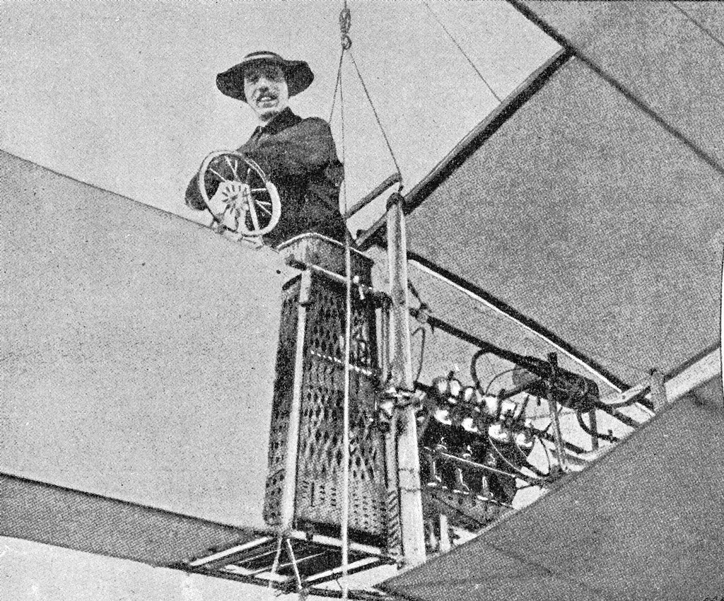 Alberto Santos Dumont onboard his aircraft.